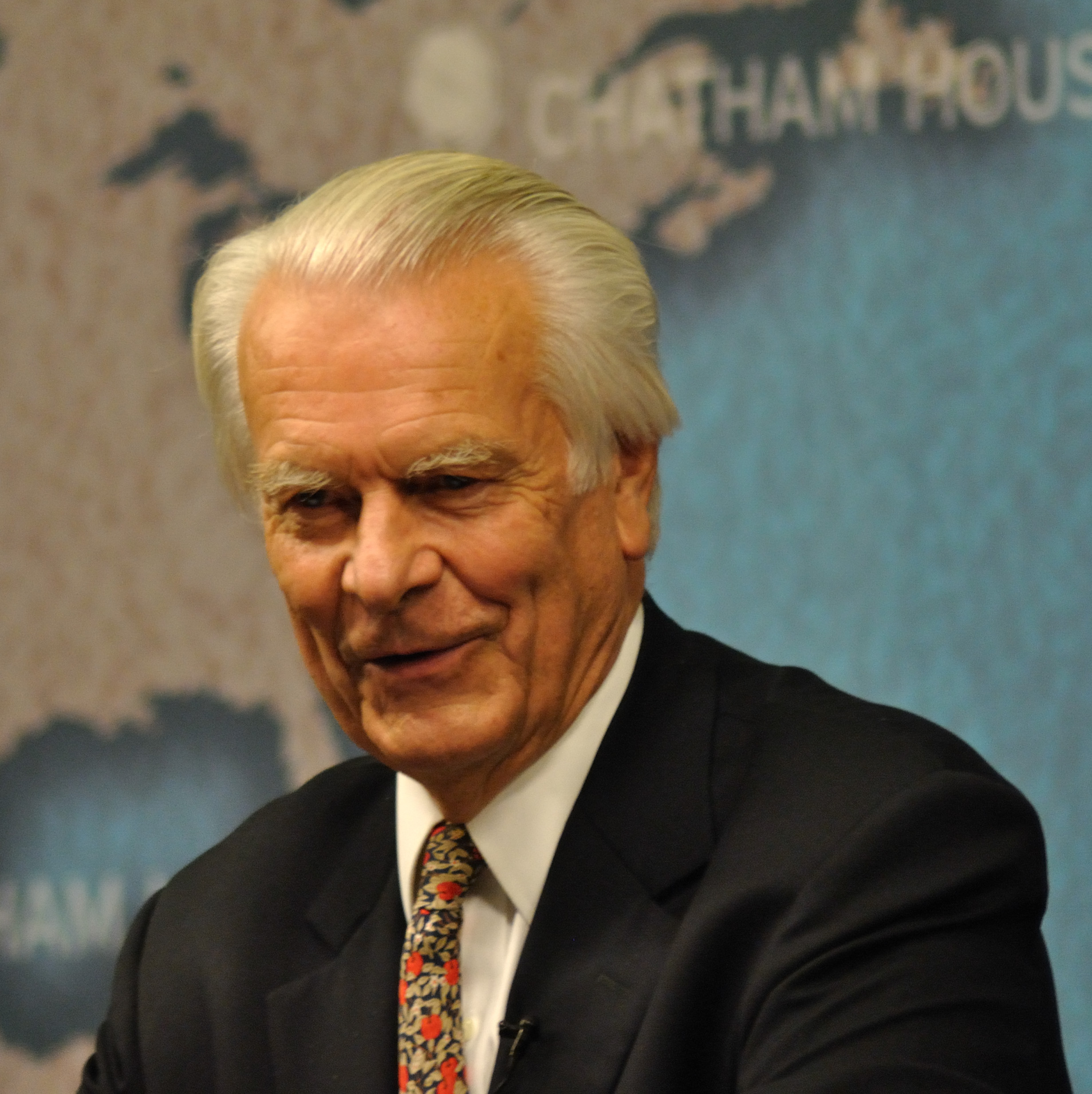 Rt Hon Lord Owen CH FRCP, UK Foreign Secretary (1977-79) at the Chatham House event Interviews I Shall Never Forget, 13 October 2011